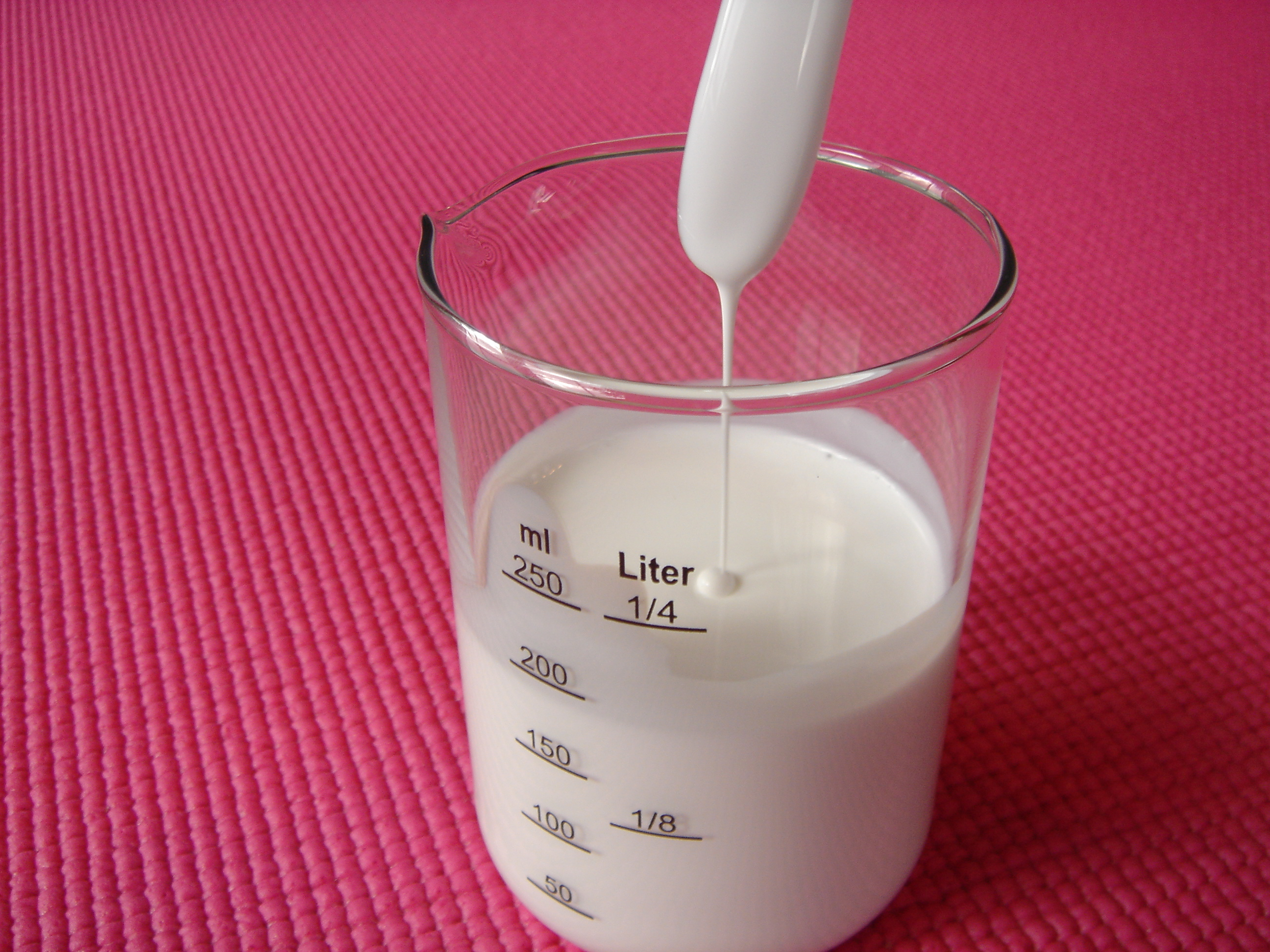 Polyurethane dispersion